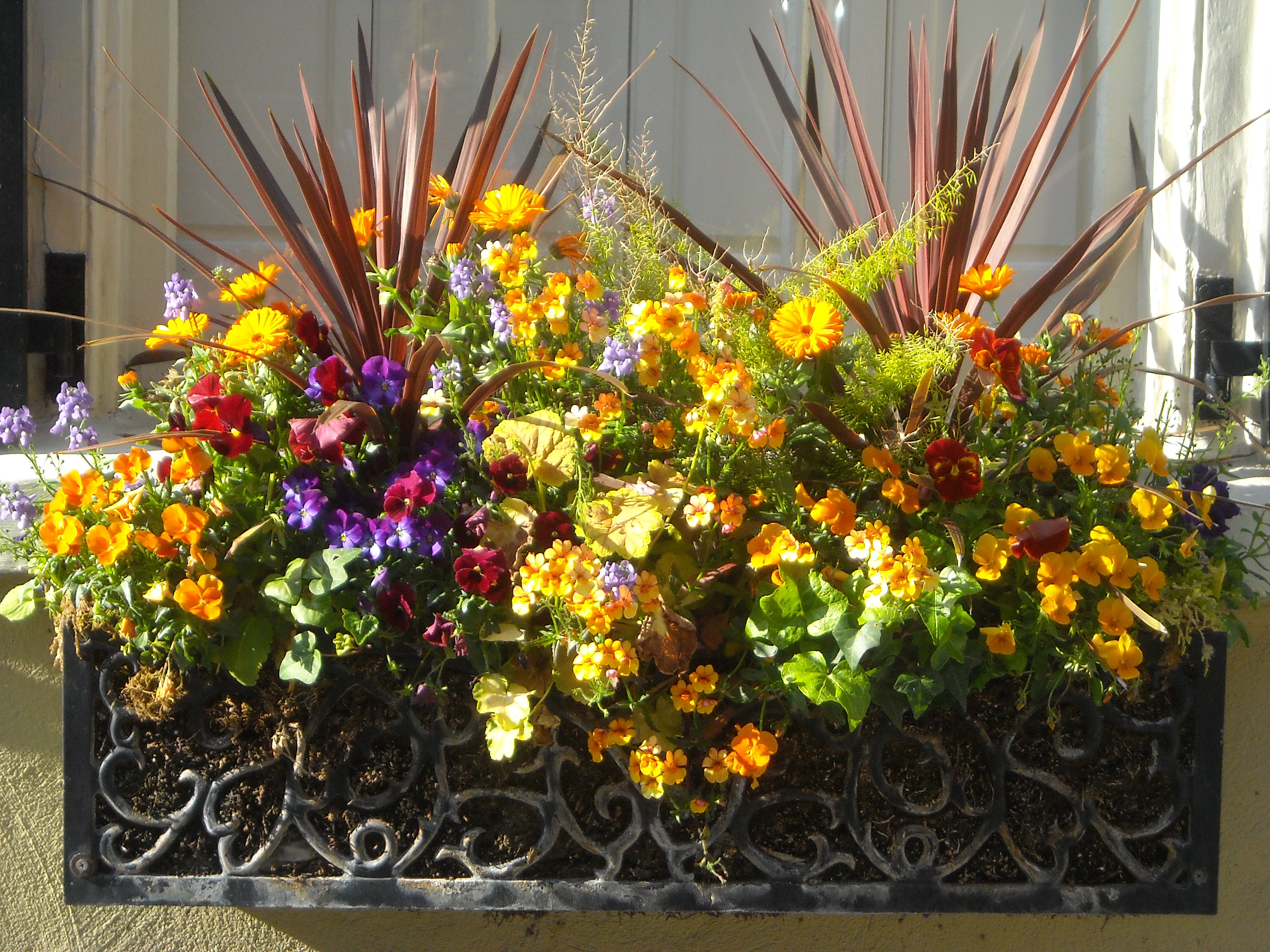 My favorite window box